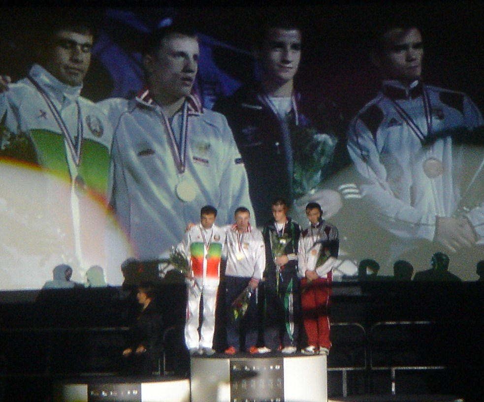 Vazgen Safaryants, Leonid Kostylev, Ross Hickey and Miklos Varga